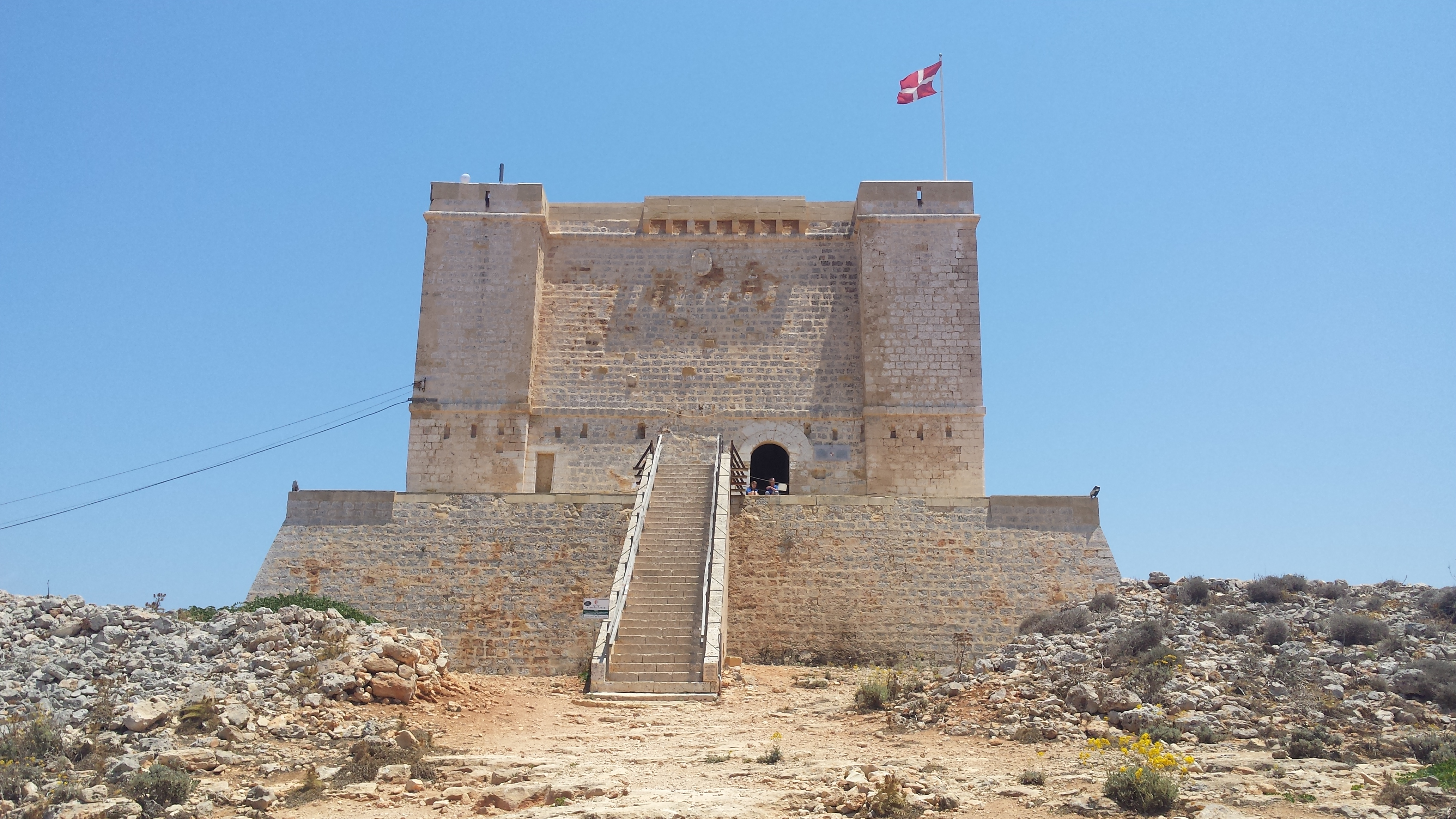 Saint Mary's Tower, Comino in June 2017